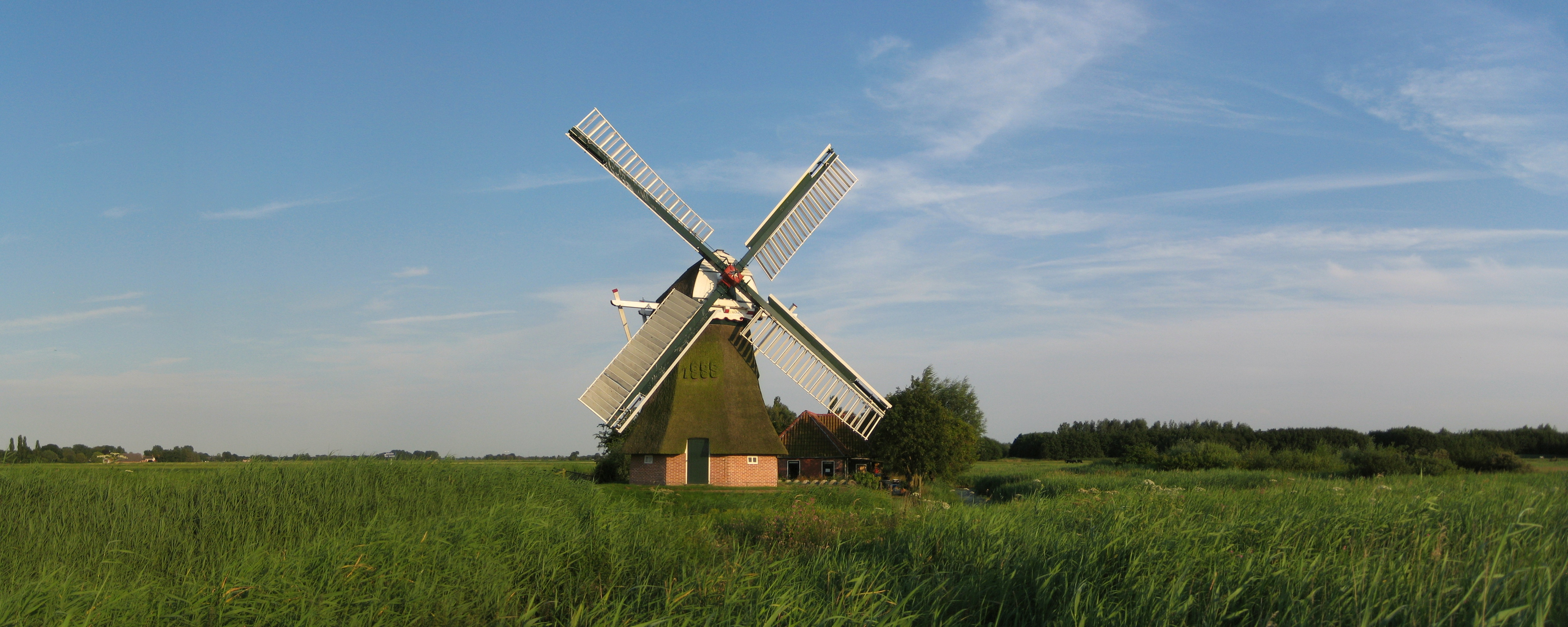 De Noordermolen (1888), a windmill near Noorddijk, a former village in the Dutch municipality of Groningen.